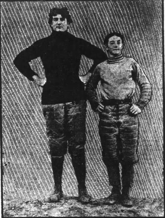 Auburn football players James Elmer, center, and C. J. Williams, quarterback